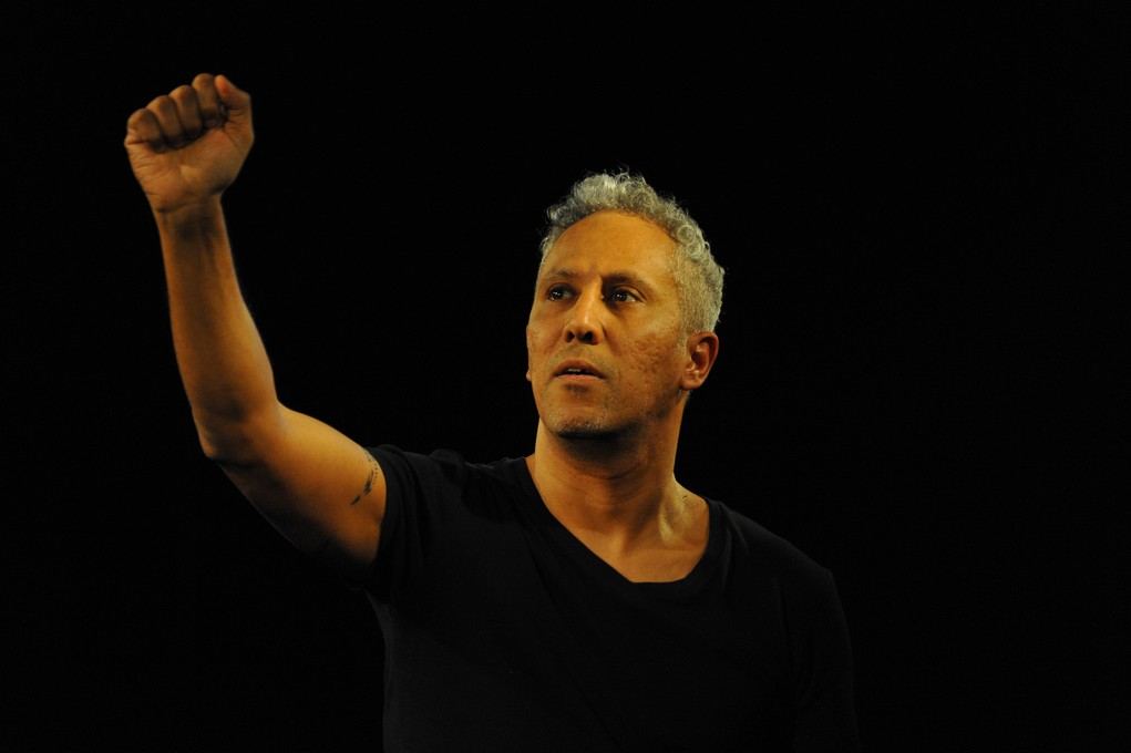 Alessandro Ghebreigziabiher from a storytelling show in Rome.